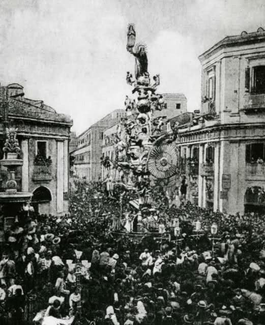 La Vara della Messina pre terremoto